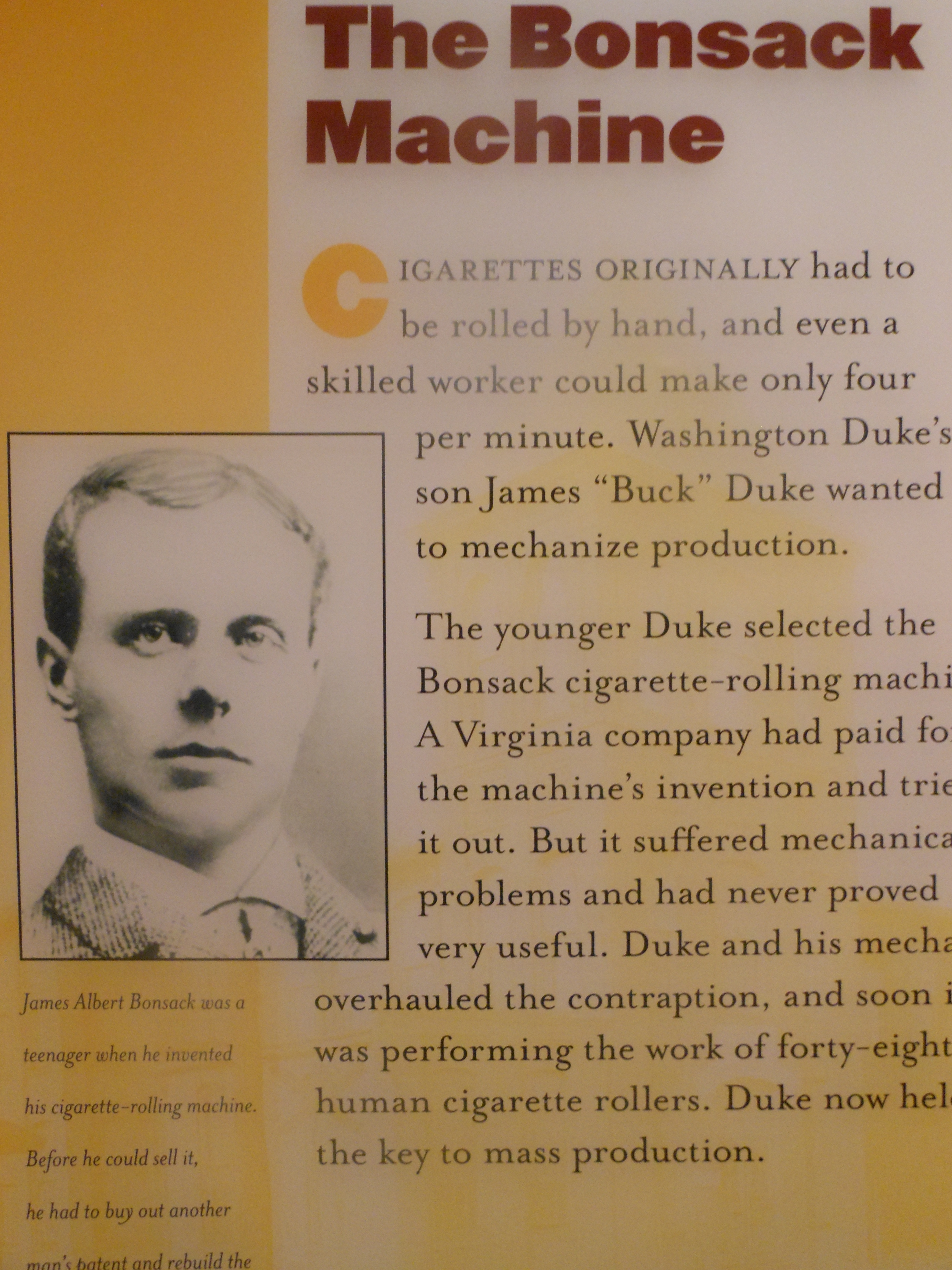 James Albert Bonsack inventor of cigarette rolling machine